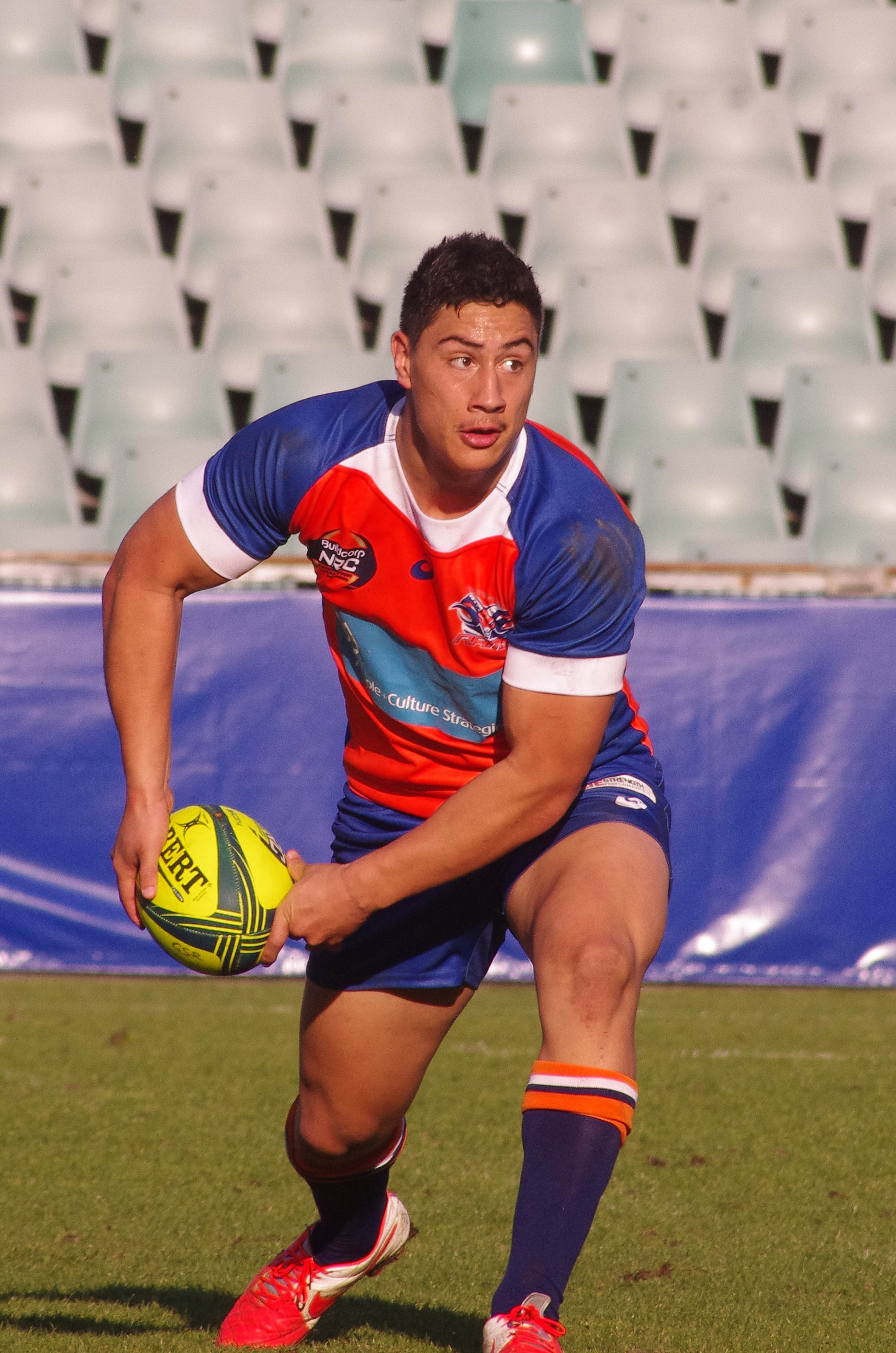 Australian rugby union player Lalakai Foketi.